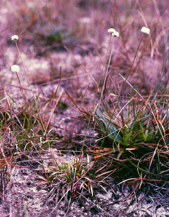 Eriocaulon ubonense, Eriocaulaceae - Kambodscha/Cambodia, Phnom Bokor Nationalpark, in der Nähe des Popokvil-Wasserfalls (Prov. Kampot)